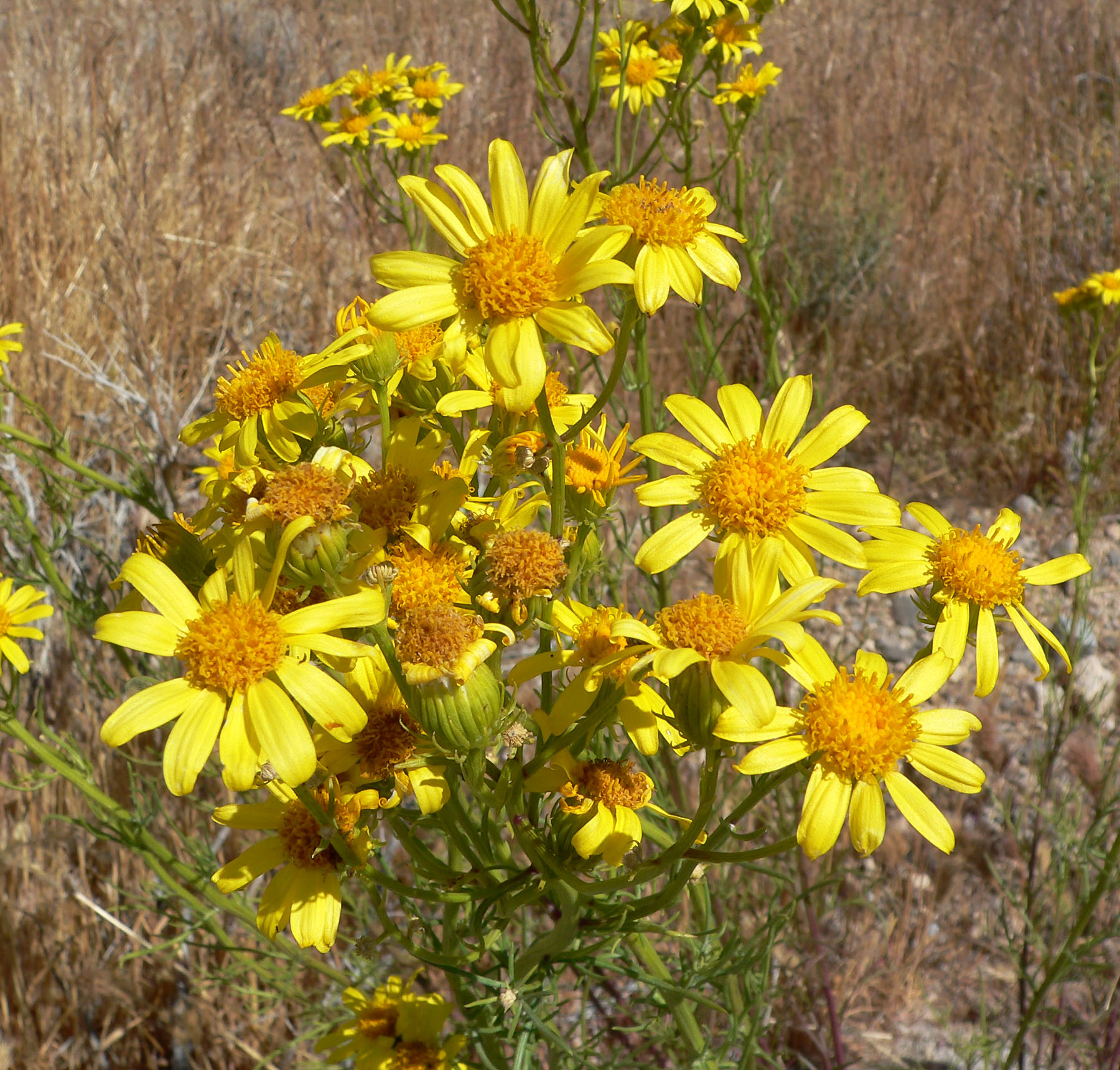 Senecio flaccidus var. monoensis in the canyon at the west end of Cheyenne Ave, Las Vegas, Nevada (Lone Mountain area)